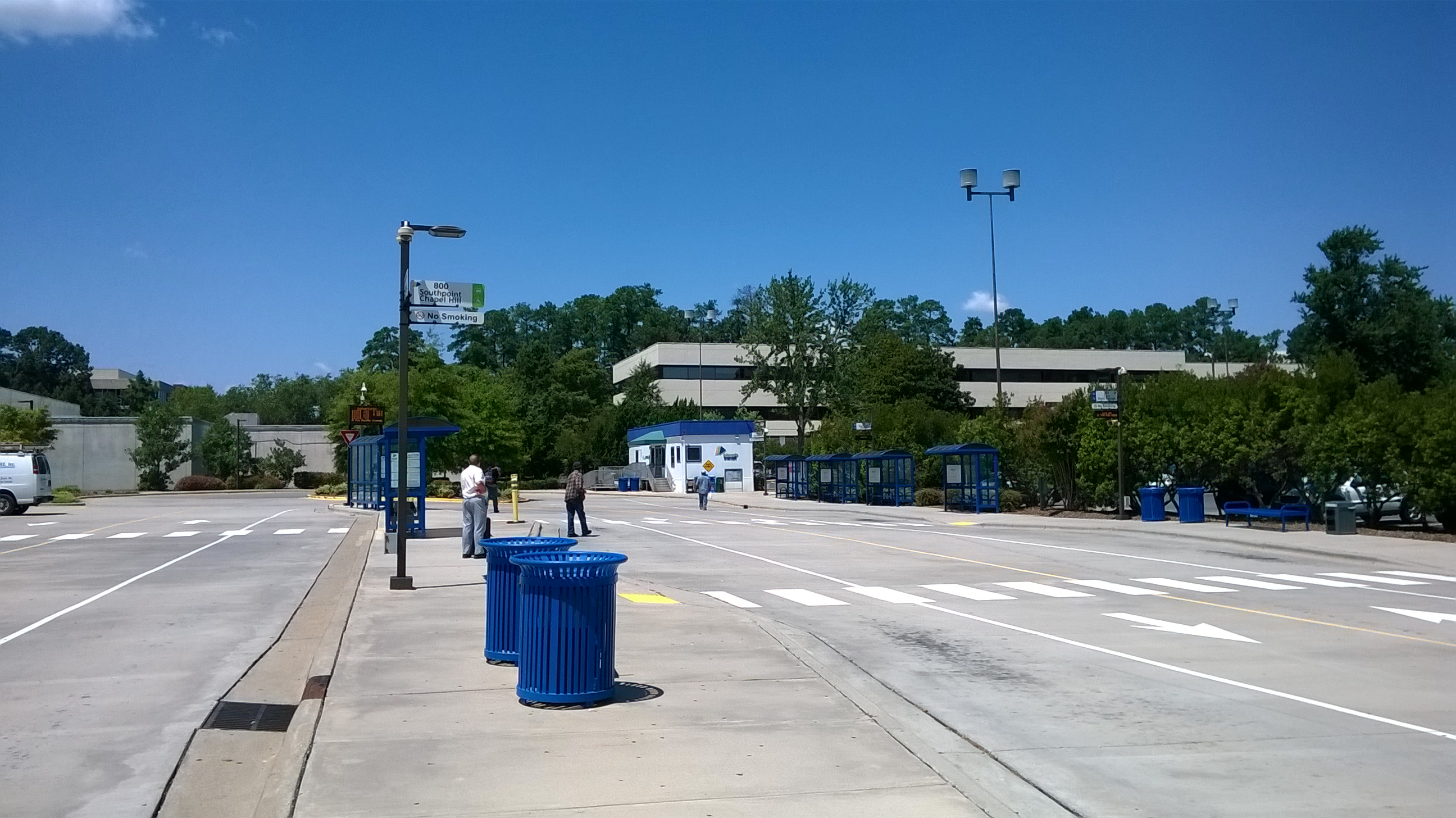 Regional Transit Center of Triangle Transit, North Carolina